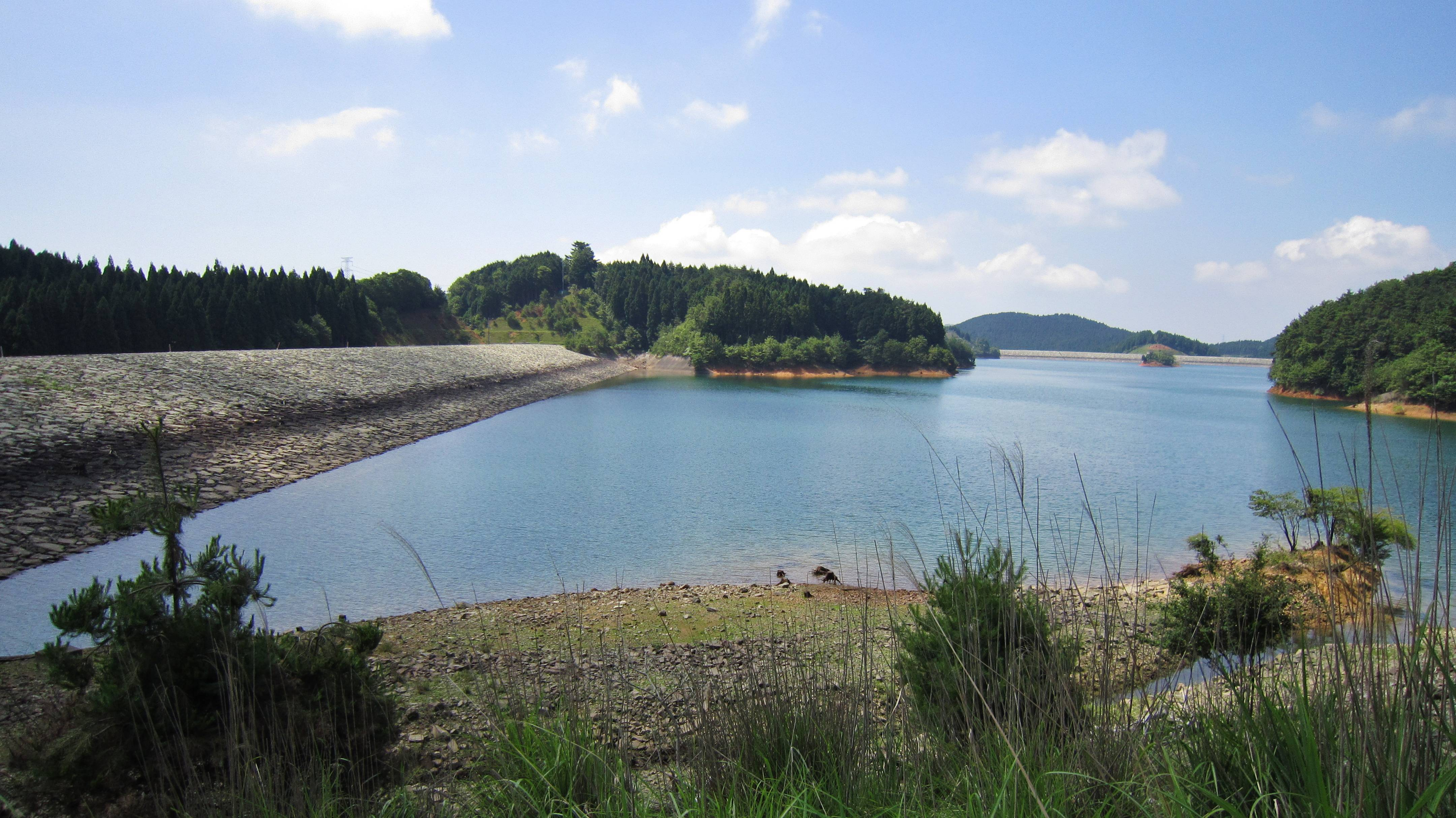 Ōta Dam (Hyogo).